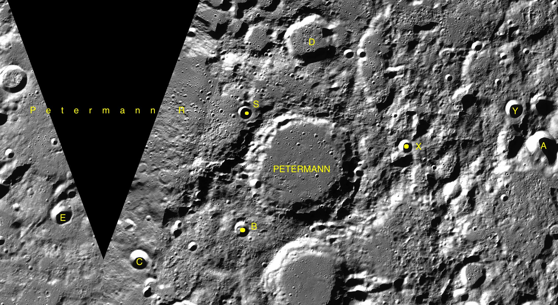 Parts of the charts LAC-4, LAC-5 used for the presentation